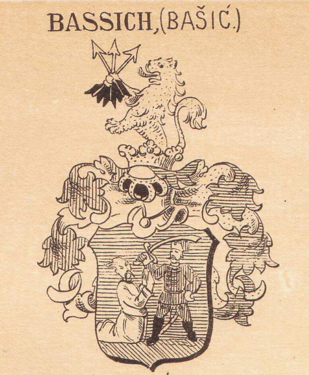 Grb Bašića